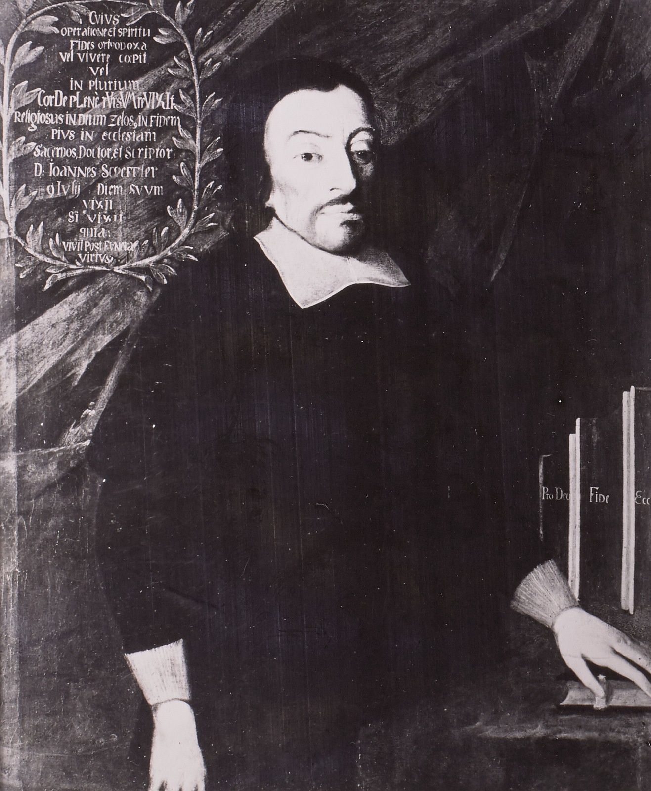 Depicted person: Angelus Silesius, invalid ID, invalid ID, invalid ID, invalid ID, invalid ID, invalid ID, invalid ID, invalid ID and invalid ID